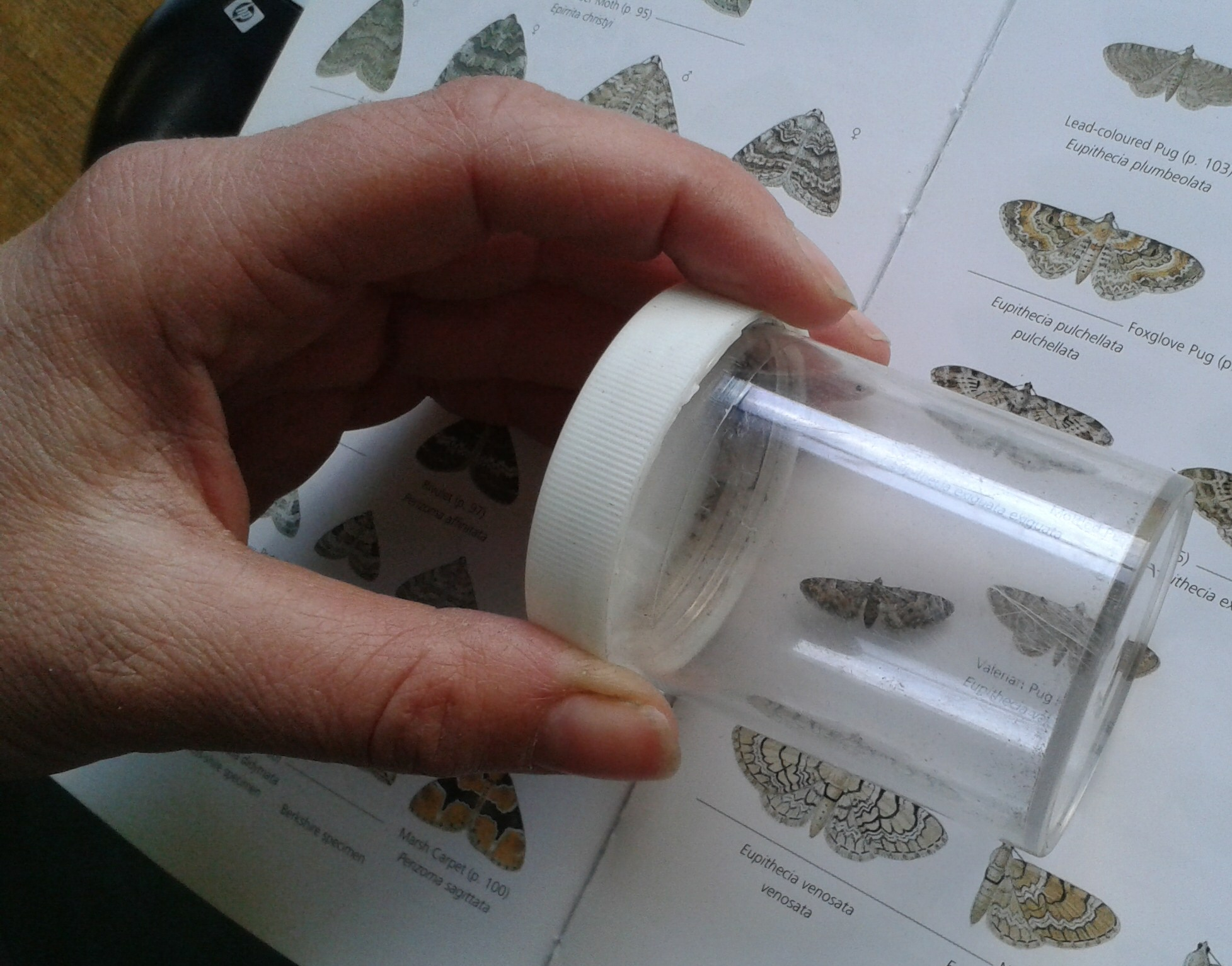 Identifying a Pug Moth at Gunnersbury Triangle